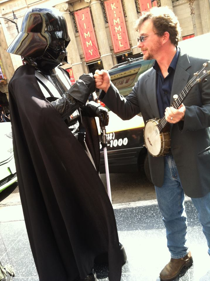 Robby Gilbert in Los Angeles, September, 2012